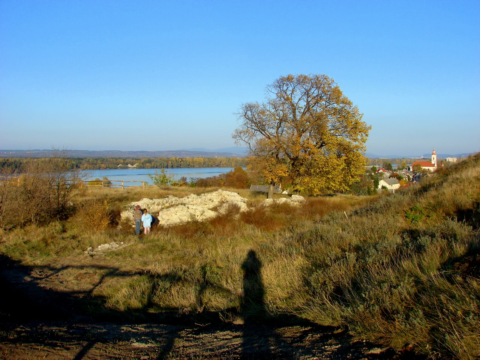 View of Nyergesújfalu